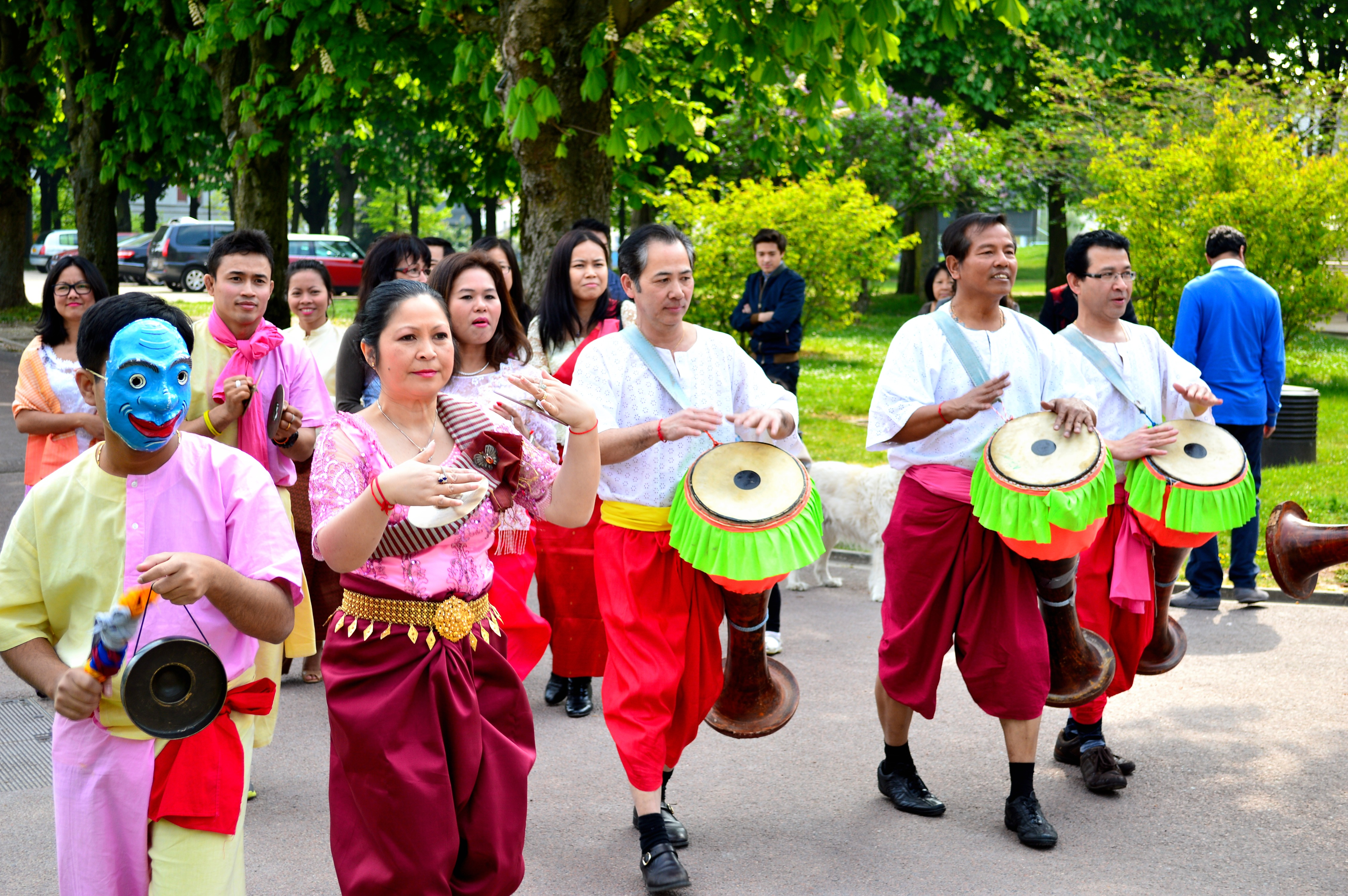 Chaul Chnam Thmey, or New Years day in the Khmer language. This picture is taken for a group of dancers performing a popular cambodian dance at the Maison de Cambodge CIUP, an event eagerly anticipated every year on campus. Usually the holiday lasts for three days beginning on New Year's Day, which usually falls on April 13 or 14th, which is the end of the harvesting season, when farmers enjoy the fruits of their labor before the rainy season begins. The Khmer New Year coincides with the traditional solar new year in several parts of India, Myanmar, Thailand and SriLanka.